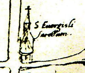 Maastricht, the Netherlands. View of the former chapel of Saint Evergislus, approximately at Maastrichter Brugstraat and Kesselskade. Detail of a map by Simon de Bellomonte, c 1570.